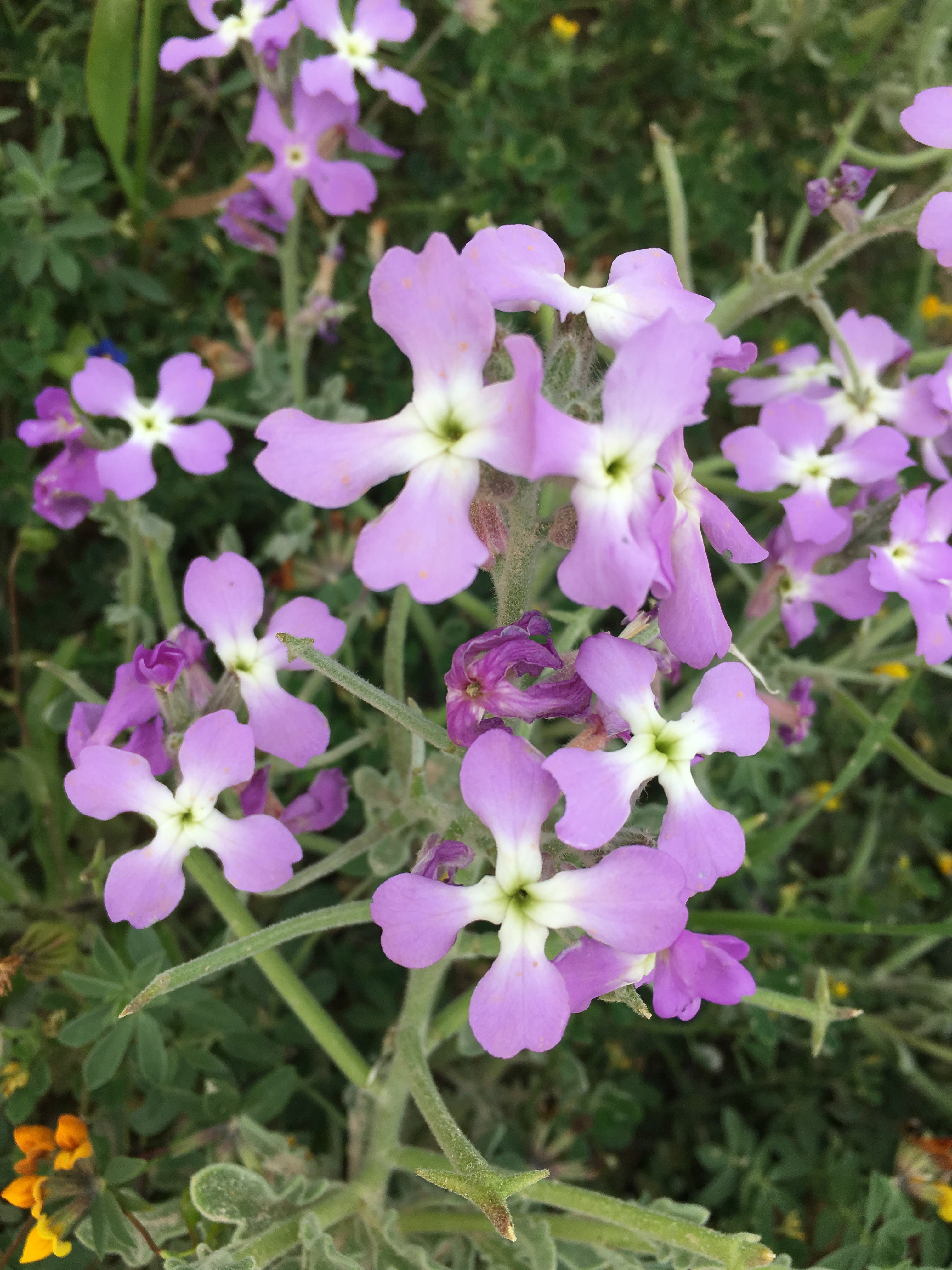 Matthiola tricuspidata